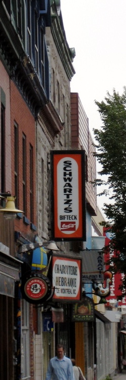 Ensigna of Schwartz's restaurant, Montreal